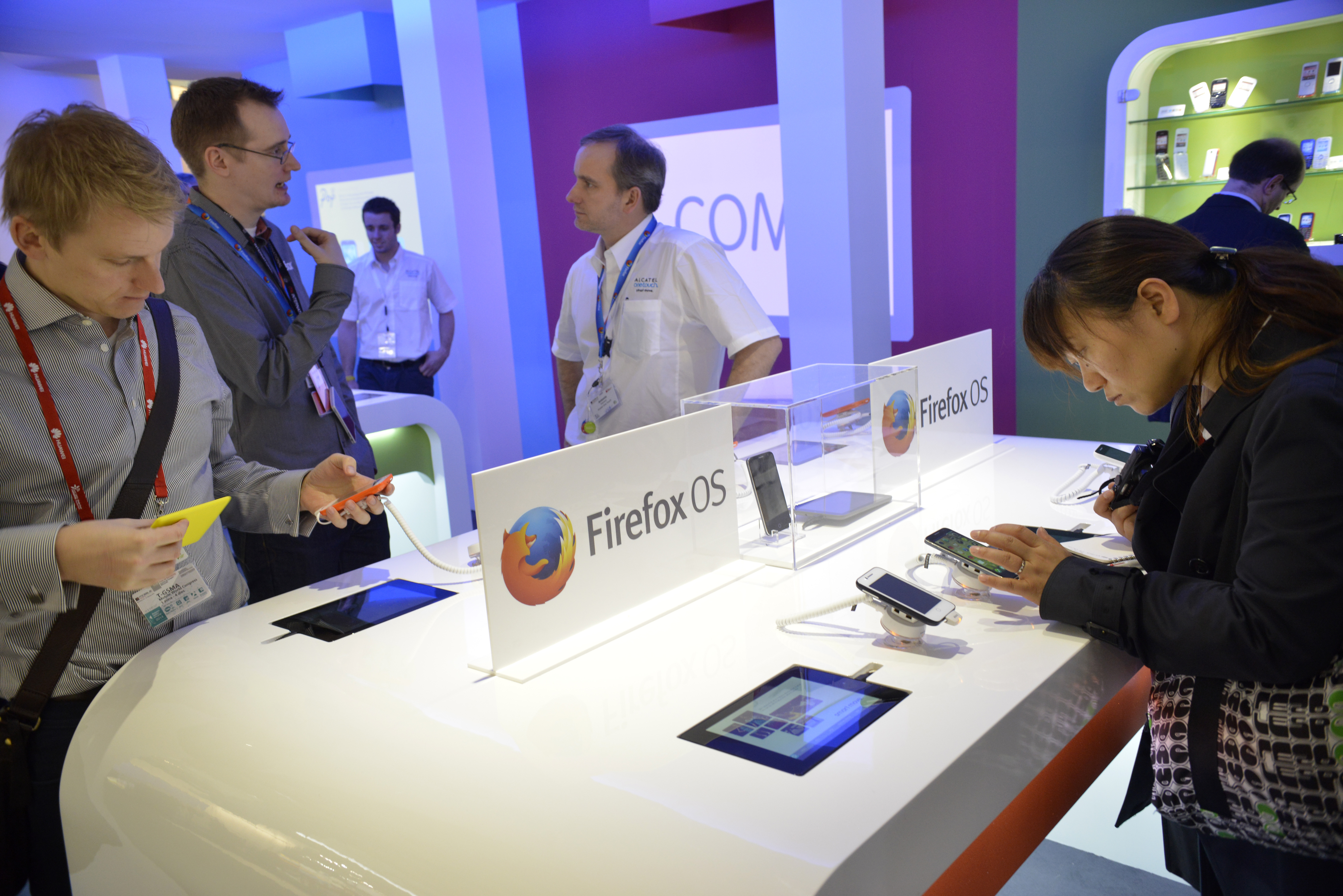 Firefox OS at ALCATEL ONETOUCH stand MWC 2014